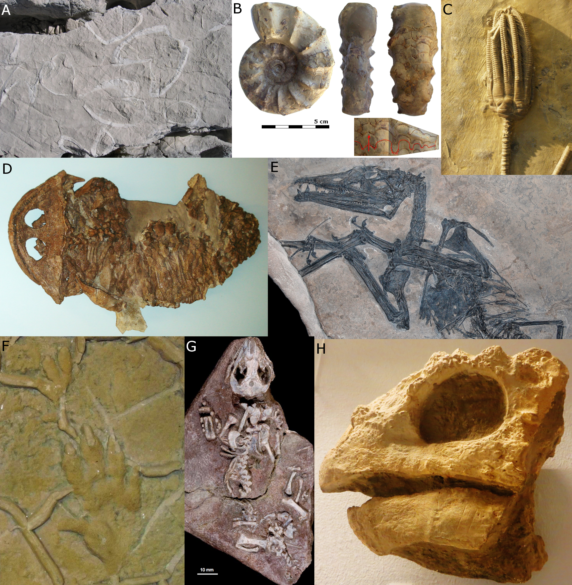 Assemblage of images of Triassic fossils (mainly vertebrates and mainly from Central Europe) A) cross sections of megalodontid bivalves in Dachstein Limestone (Upper Triassic), Northern Calcareous Alps of Austria B) ammonoid cephalopod Ceratites evolutus from the Upper Muschelkalk (Anisian/Ladinian, Middle Triassic) of Franconia, southern Germany C) crinoid Encrinus liliiformis from the Upper Muschelkalk (Anisian/Ladinian) of Germany D) plagiosaurid trematosaur temnospondyl Gerrothorax pustuloglomeratus from the Lower Keuper (Ladinian) of Wurttemberg, southern Germany E) basal pterosaur Eudimorphodon ranzii from the Norian (middle Upper Triassic) of the Italian Alps F) slab with tetrapod trace fossil Chirotherium barthii from the upper Middle Buntsandstein (Olenekian/Anisian, Lower/Middle Triassic transition) of Thuringia, central Germany G) procolophonid parareptile Sauropareion anoplus from the Katberg Formation (Induan, Lower Triassic) of the Eastern Cape Province, South Africa H) incomplete skull of the early turtle Proganochelys quenstedti from the Middle Keuper (Upper Triassic) of southern Germany